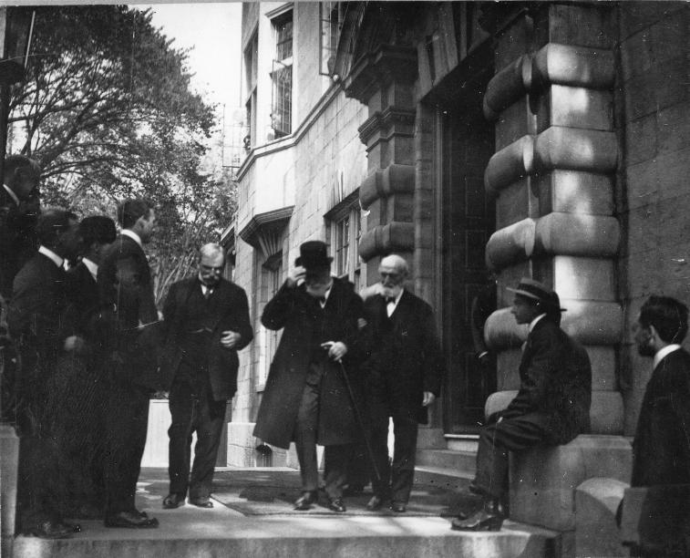 Photograph, Opening of the McGill University Student Union building, Montreal, QC, 1906, Arthur A. Gleason, Silver salts on paper mounted on card - Gelatin silver process 10.7 x 13.3 cm